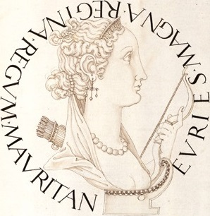 Queen Eunoë